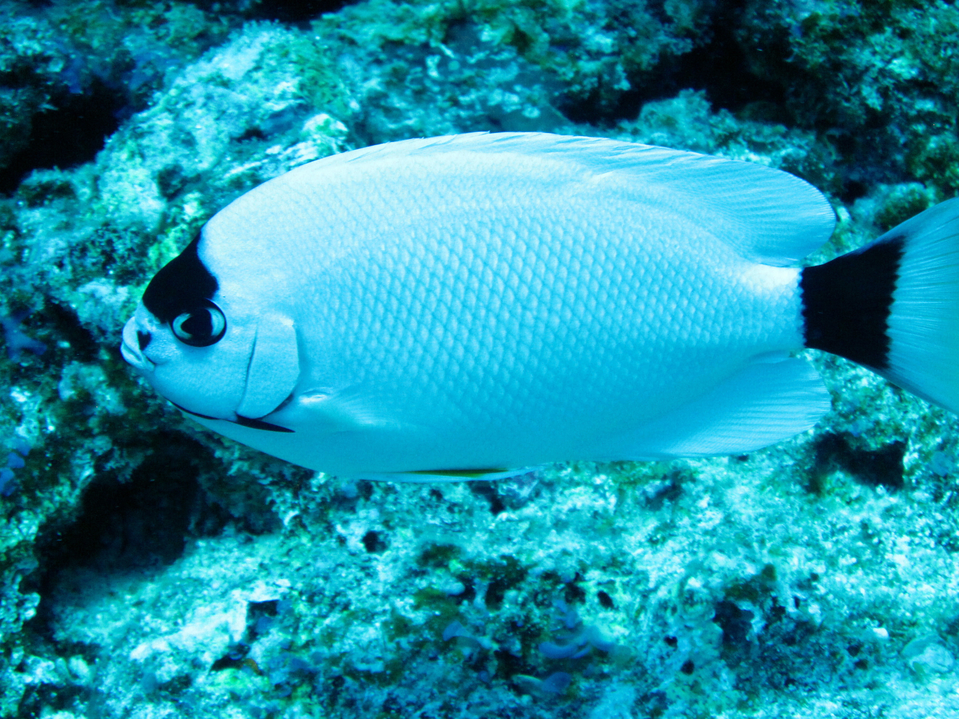 Masked angelfish - female (Genicanthus personatus) Image ID: corl0078, NOAA's Coral Kingdom Collection Location: Hawaii, NWHI Photo Date: 2009 Photographer: Kevin Lino NOAA/NMFS/PIFSC/ESD